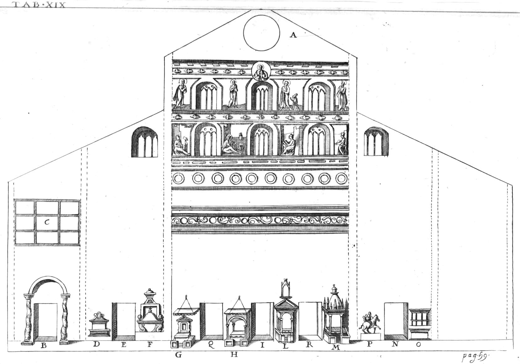 Engravings of (old) Saint Peter's Basilica in Rome.